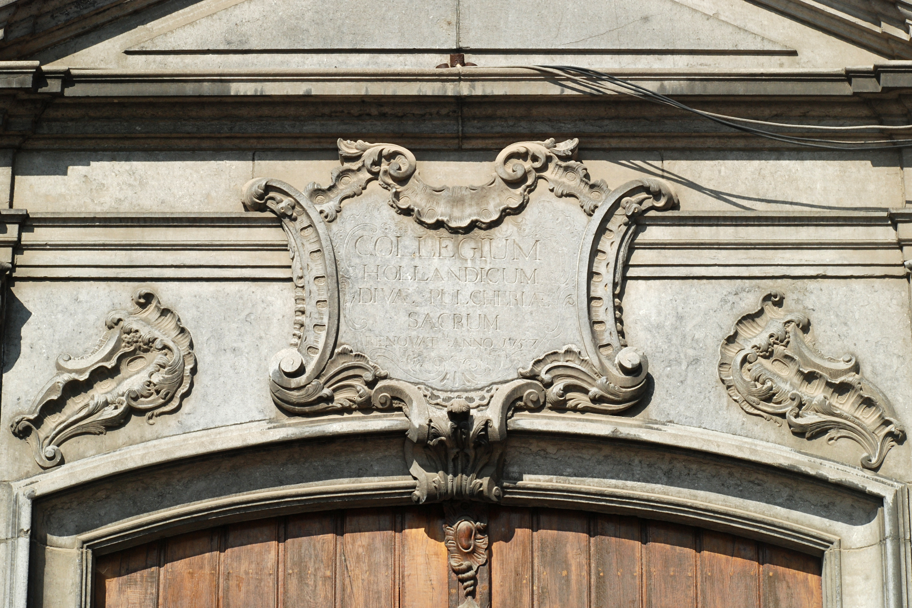 Belgium - Leuven - Holland College